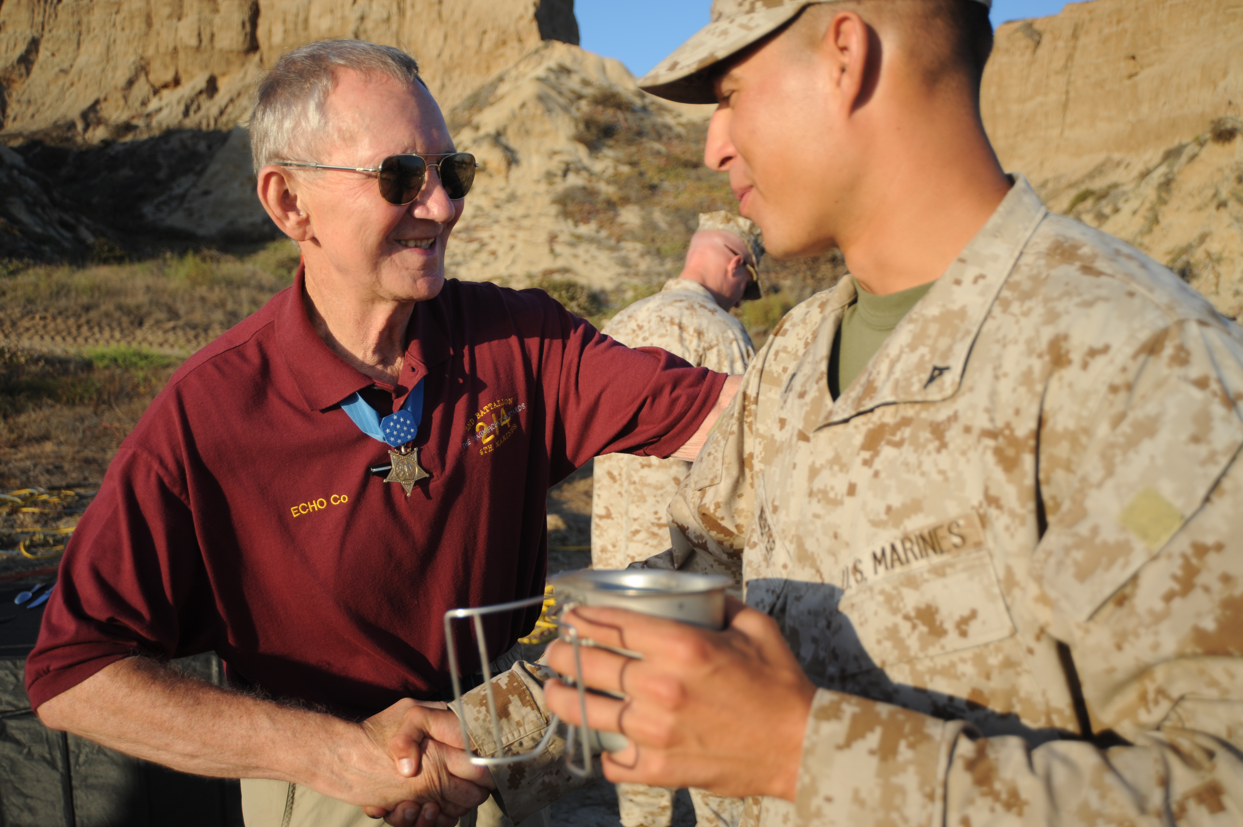 Retired Major General James E. Livingston greets a member of Company E, 2nd Battalion, 4th Marine Regiment, during a field mess night at Camp Pendleton, California, on July 16. Livingston served as the company's commander in 1968 during the Vietnam War. There he earned the Medal of Honor and many other decorations for heroic actions in combat.